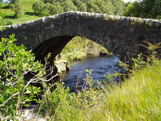 Knockreoch Bridge. A beautiful old bridge spanning the Polharrow Burn.